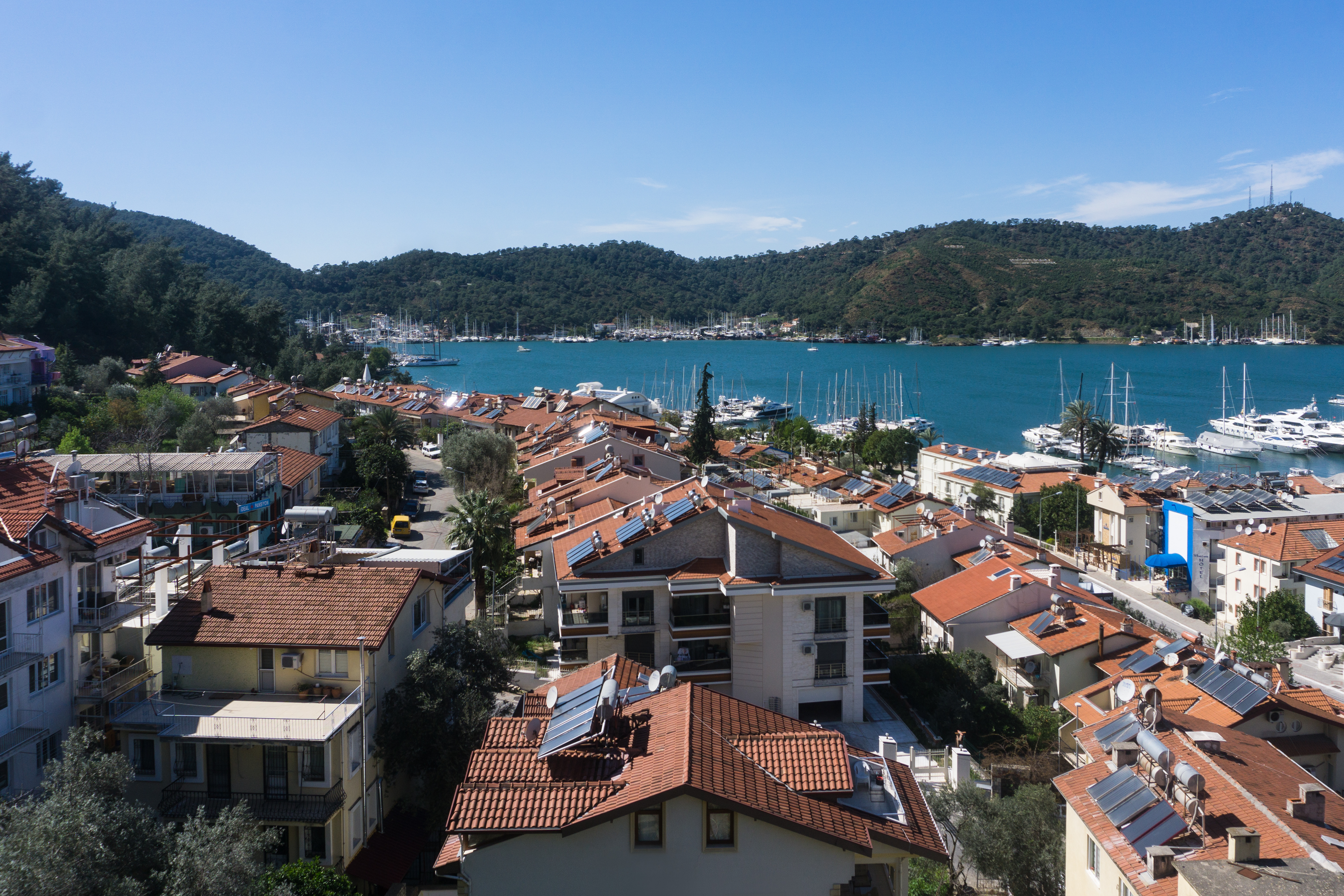 Fethiye in March